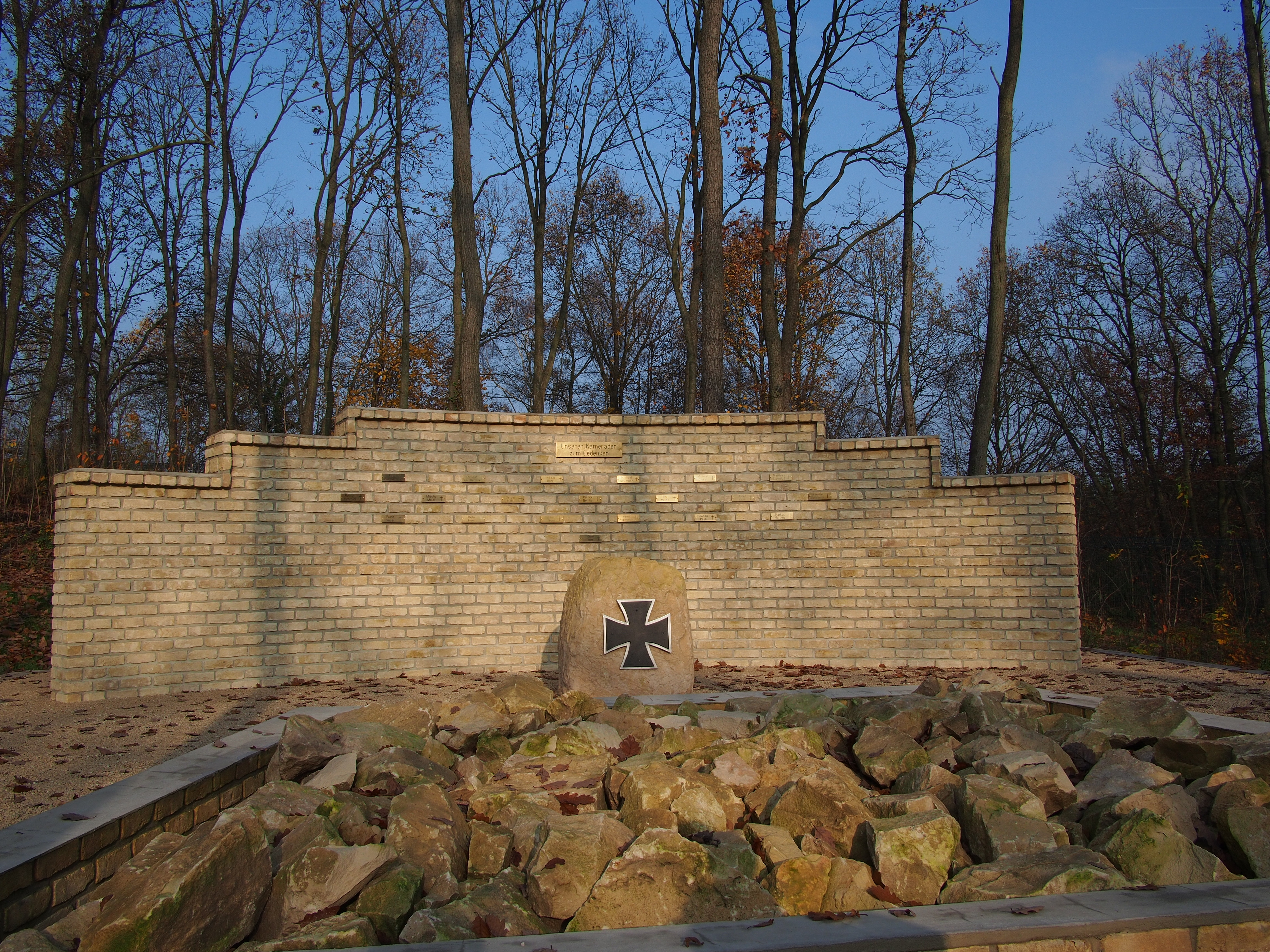 The "Forest of remembrance", located at the German Joint Forces Command near Potsdam and inaugurated on Nov. 15, 2014, reminds of the German Bundeswehr soldiers who died on deployment.Memorial stone from Kunduz/Afghanistan